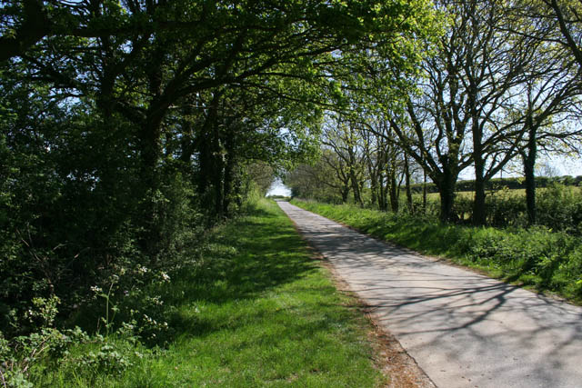 Country road near Lound Looking towards the A6121, the main road from Stamford to Bourne. The junction is just through the arch of trees at the centre of this photograph.